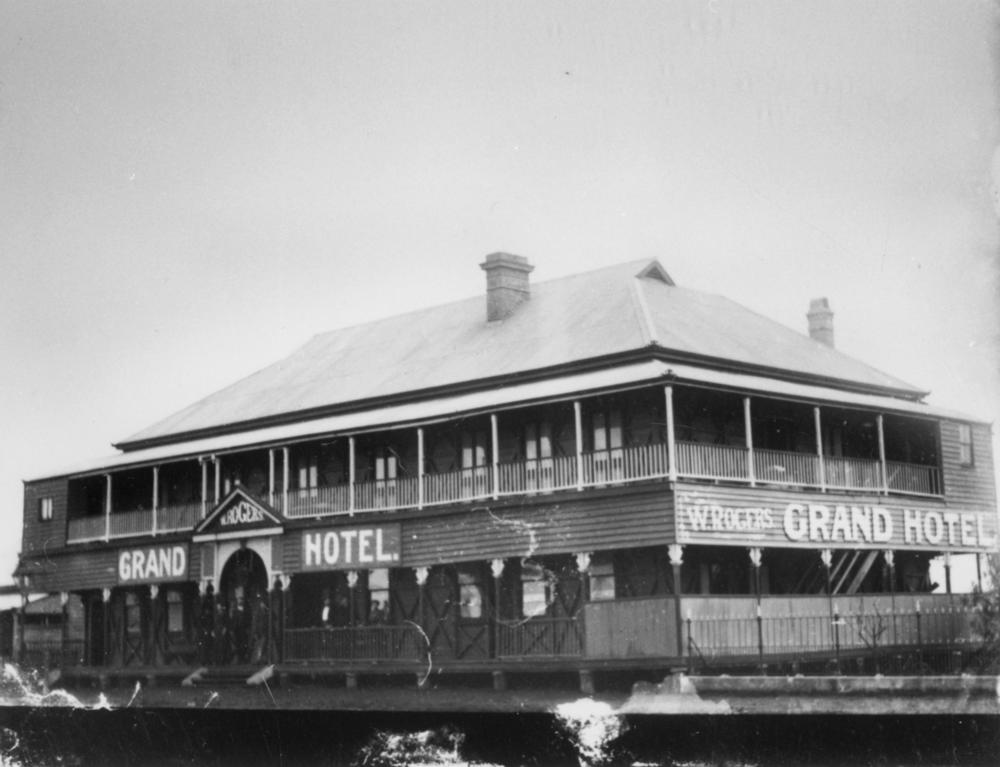 Grand Hotel, Pittsworth, ca. 1903. This is a two storey building with an iron roof and verandas upstairs and down. The signs on the hotel show the Grand Hotel had W. Rogers as the proprietor at this time.